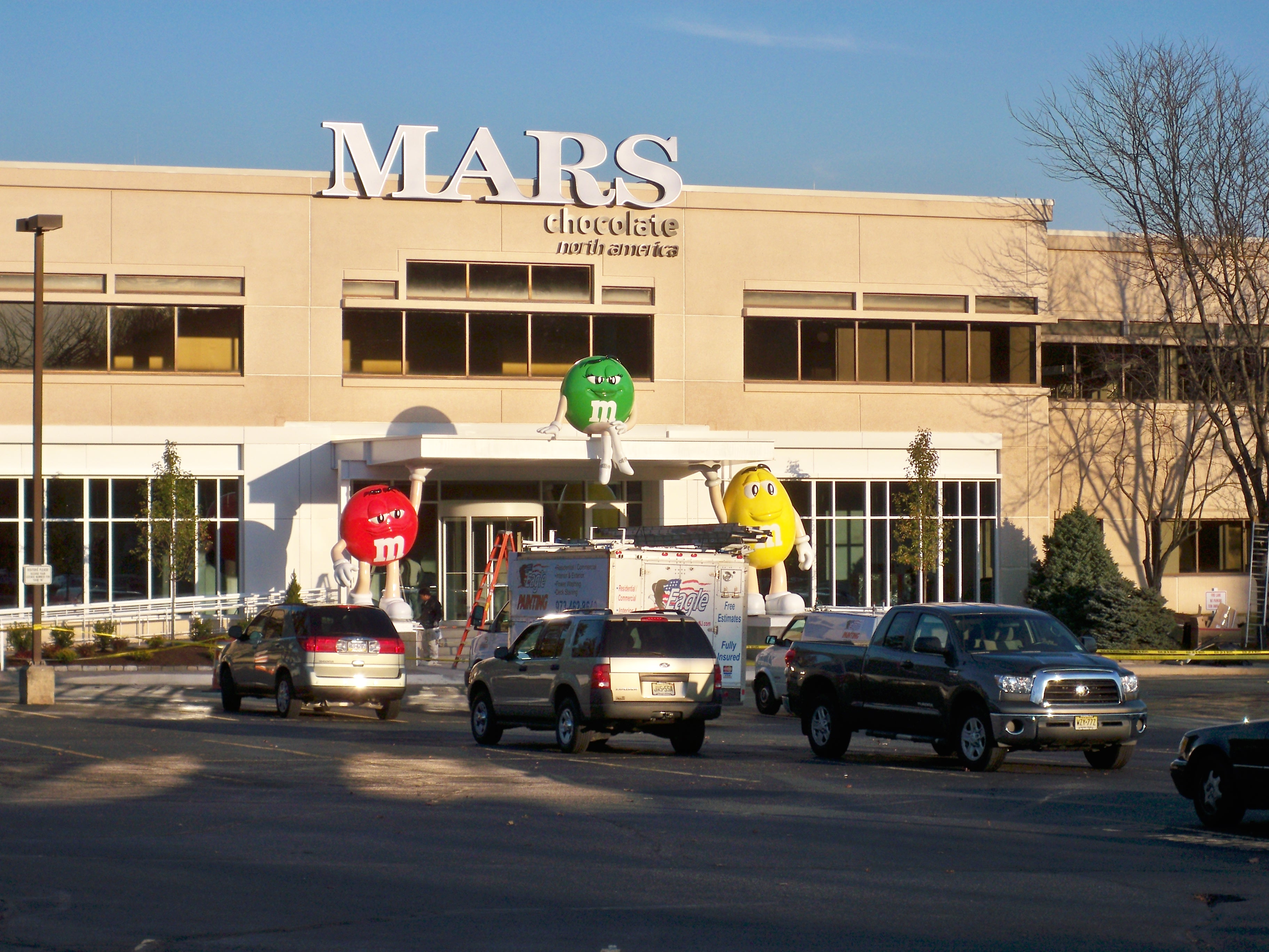 800 County Rd 517, Hackettstown, NJ 07840